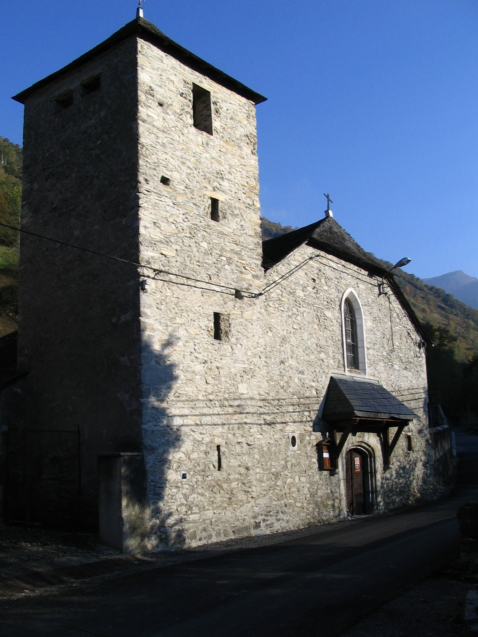 Church in the village of Béon in the French Pyrenees